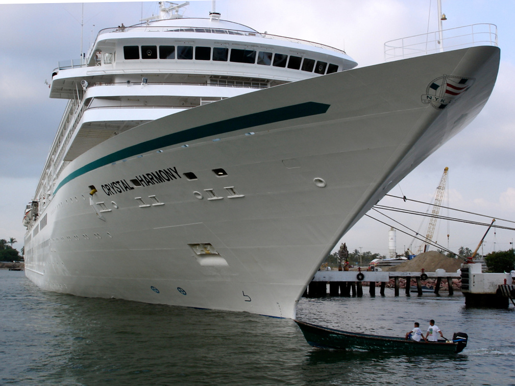 Crystal Harmony on October 19, 2005.